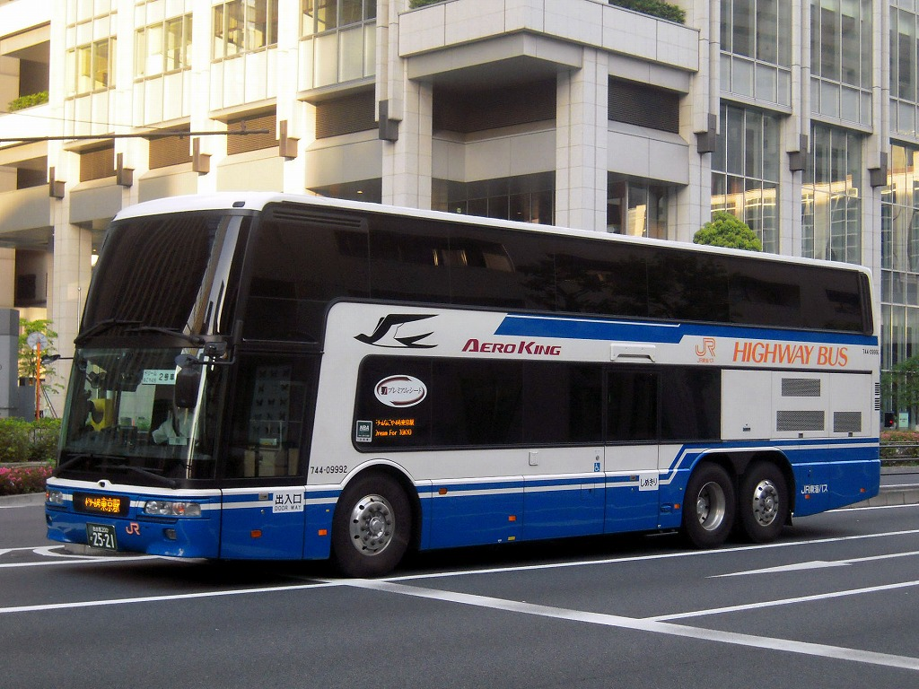 JR Tokai bus Dream Nagoya 6 (with Premium seats) Mitsubishi Fuso Aero King(BKG-MU66JS)